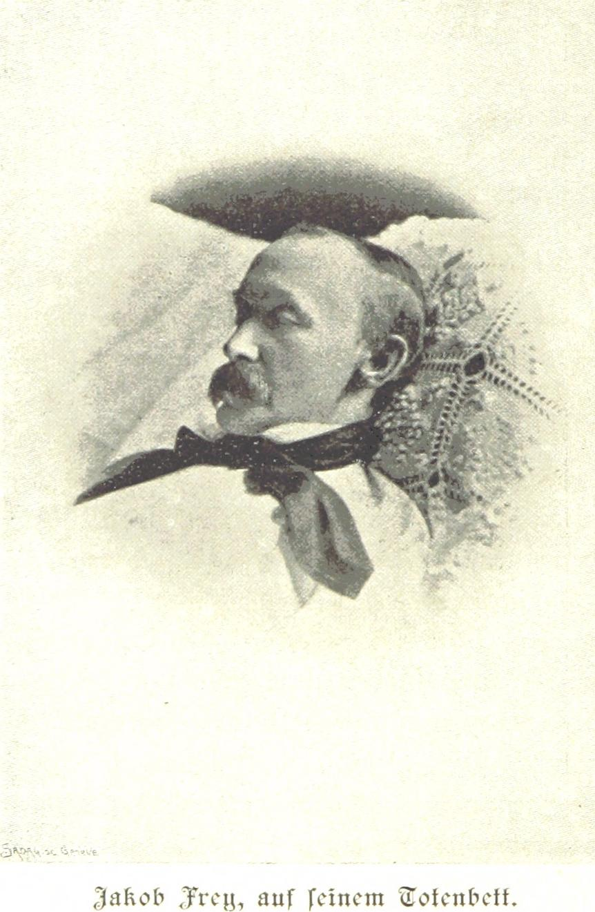 Post mortem picture of Jakob Frey Image taken from: Title: "Die Schweiz im neunzehnten Jahrhundert. Herausgegeben von schweizerischen Schriftstellern unter Leitung von P. Seippel" Author: SEIPPEL, Paul. Shelfmark: "British Library HMNTS 9305.h.2." Volume: 02 Page: 336 Place of Publishing: Lausanne Date of Publishing: 1899 Issuance: monographic Identifier: 003330970 Explore: Find this item in the British Library catalogue, 'Explore'. Download the PDF for this book (volume: 02) Image found on book scan 336 (NB not necessarily a page number) Download the OCR-derived text for this volume: (plain text) or (json) Click here to see all the illustrations in this book and click here to browse other illustrations published in books in the same year.